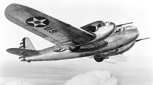 9485/Airacuda2.JPG As this is a United States Military Picture, it is free to use.yayayayayayay